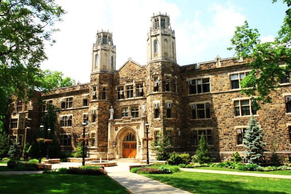 P.C. Rossin College of Engineering & Applied Science